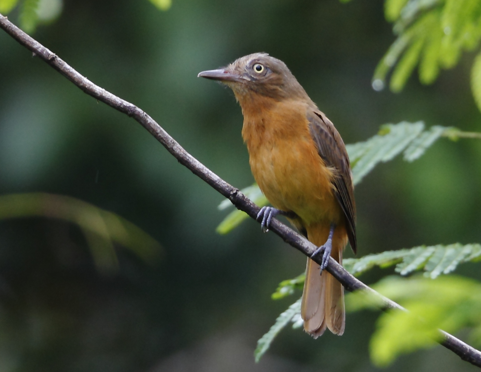 White-eyed attila at Careiro da Várzea, Amazonas, Brazil